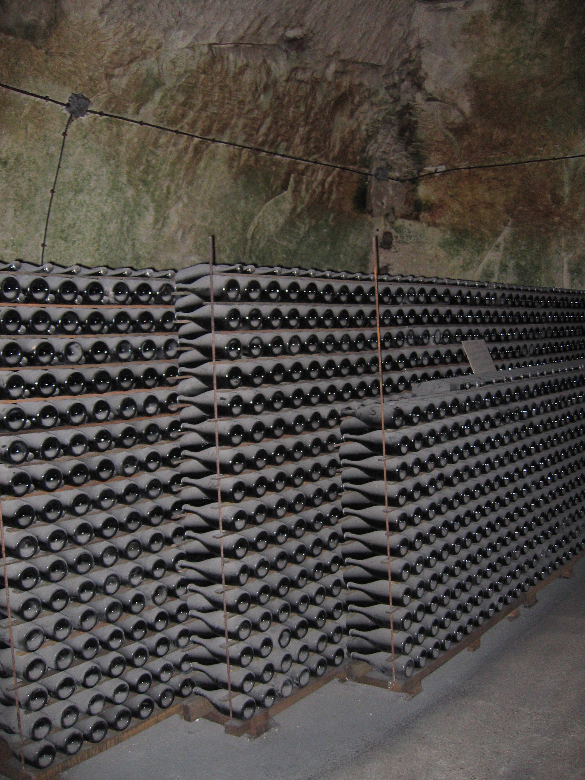 Storage of Champagne bottles in the cellars of Veuve Clicquot, Reims